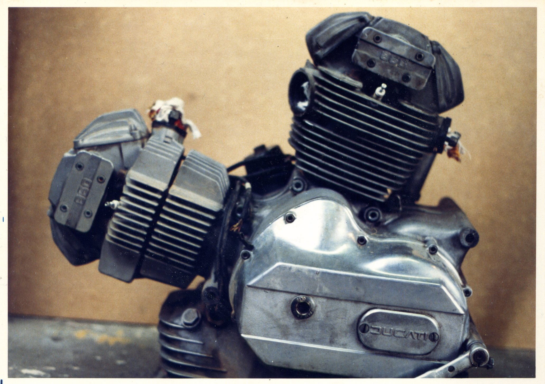 Ducati 860GT engine, stripped down for rebuild in 1980s - scanned print.